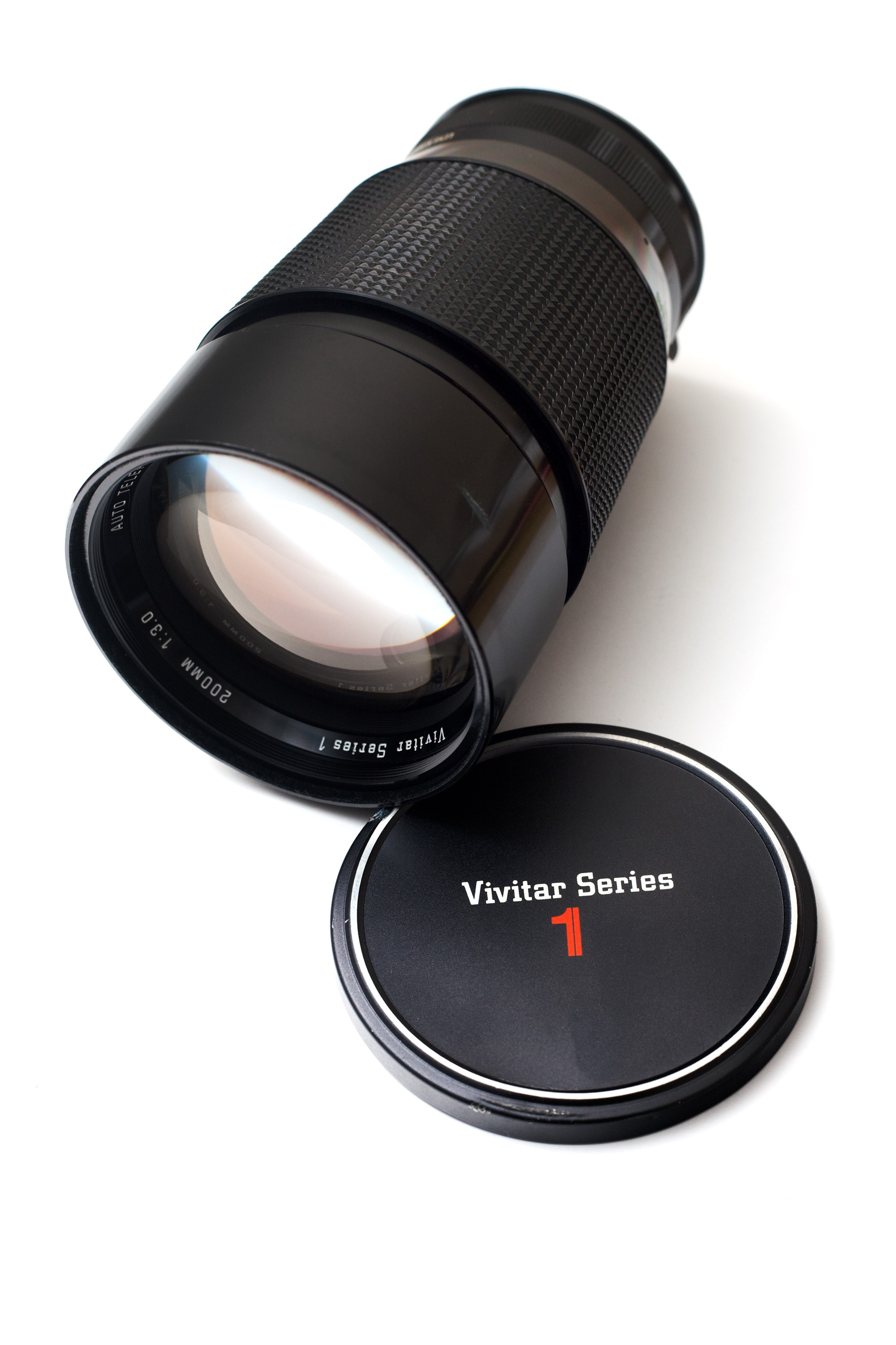 Vivitar Series 1 200mm f/3.0